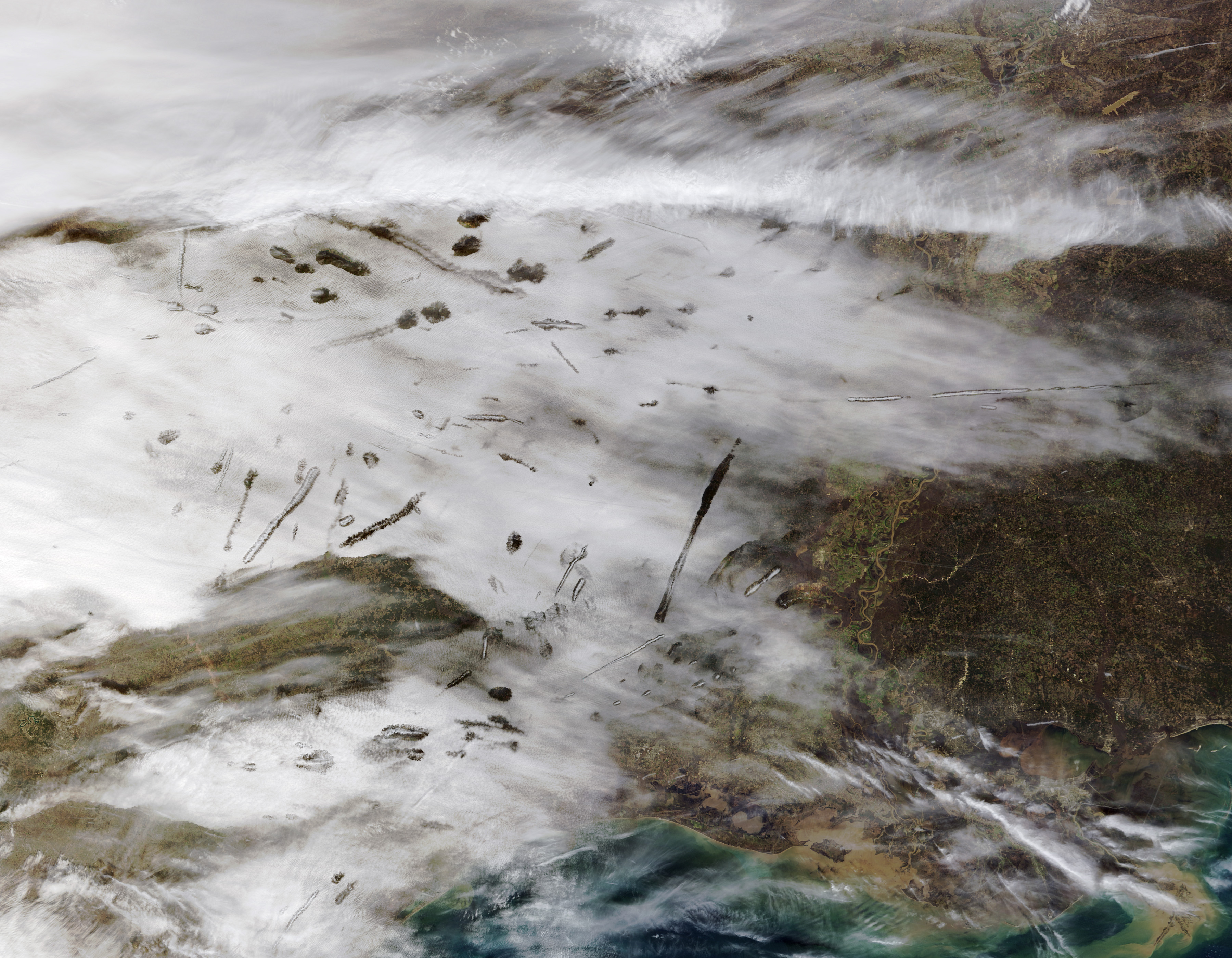 On January 29, 2007, inhabitants of Acadiana, the Cajun heartland in southern Louisiana, saw unusual looking cloud formations. These “hole punch” clouds were just as apparent from above as they were from below. This pair of images shows the hole-punch clouds captured by the Moderate Resolution Imaging Spectroradiometer (MODIS) on NASA’s Terra satellite (top) and from the ground (bottom). The MODIS image shows a number of round holes in a blanket of cloud cover over Oklahoma, Arkansas, Louisiana, and Texas. A few of the “holes” are elongated, with what appear to be smaller clouds inside them. This strange phenomenon resulted from a combination of cold temperatures, air traffic, and perhaps unusual atmospheric stability. The cloud blanket on January 29 consisted of supercooled clouds. Supercooled clouds contain water droplets that remain liquid even though the temperature is well below freezing, and such clouds are not unusual. According to the Cooperative Institute for Meteorological Satellite Studies (CIMSS) Satellite Blog, cloud-top temperatures ranged from -20 to -35 degrees Celsius. As aircraft from the Dallas-Fort Worth airport passed through these clouds, tiny particles in the exhaust came into contact with the supercooled water droplets, which froze instantly. The larger ice crystals fell out of the cloud deck, leaving behind the “holes,” while the tiniest ice particles in the center remained aloft. The people on the ground watching the show these clouds made didn’t have to worry about getting wet or being showered with ice. When the general atmospheric conditions aren’t favorable for rain, the falling ice crystals sublimate—change state directly from a solid to a gas—as they pass through warmer layers of the atmosphere.